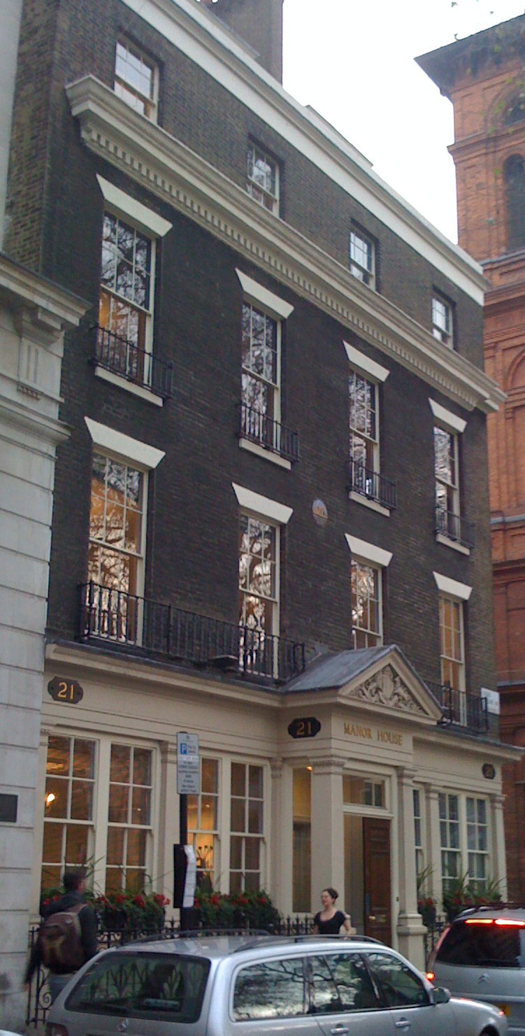 Manor House, 21 Soho Square, London W1D 3QP